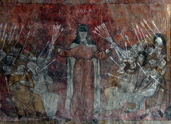 Depicting the plague personified as a woman, she "carries arrows that strike those around her, often in the neck and armpits—in other words, places where the buboes commonly appeared"